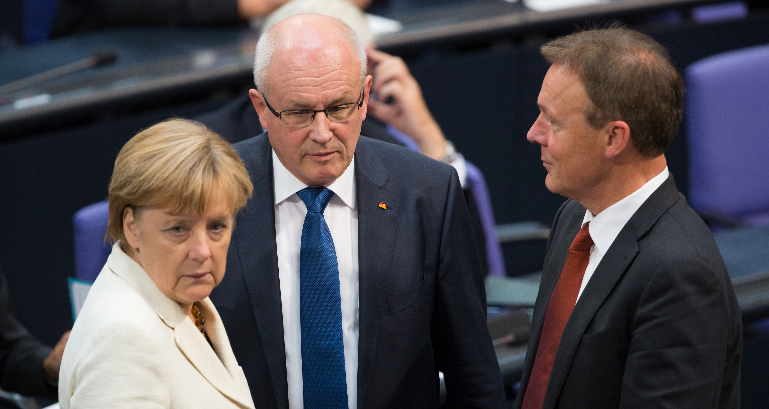 Picture taken during Wikipedia Bundestag project 2014. Angela Merkel, Volker Kauder, Thomas Oppermann.